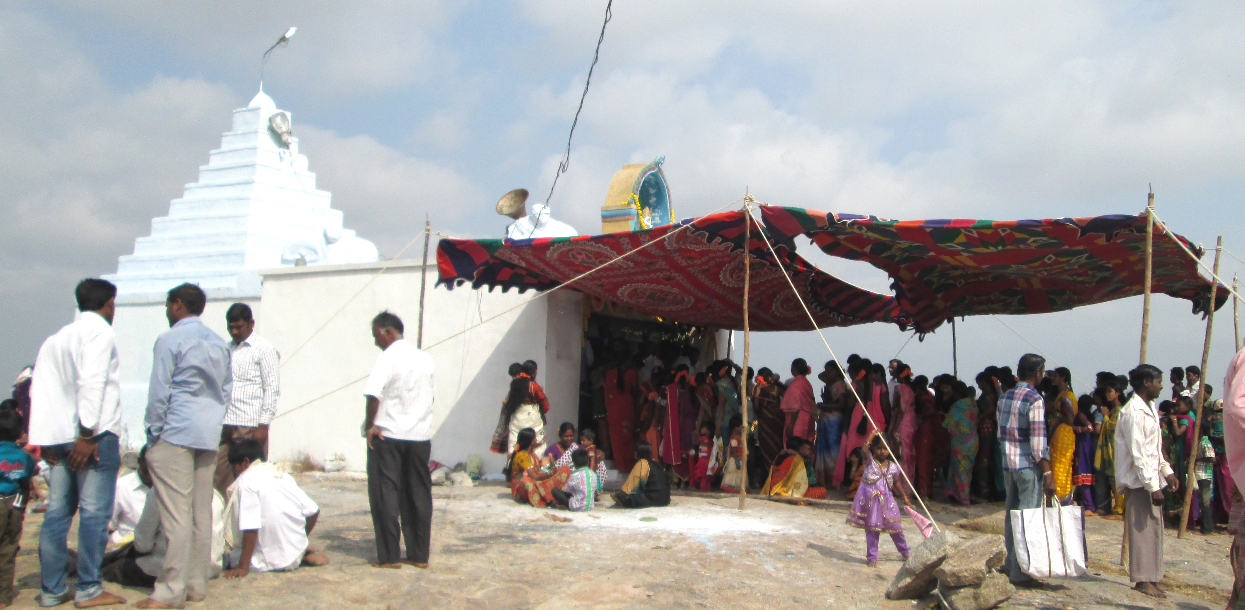 ఉత్సవాలు